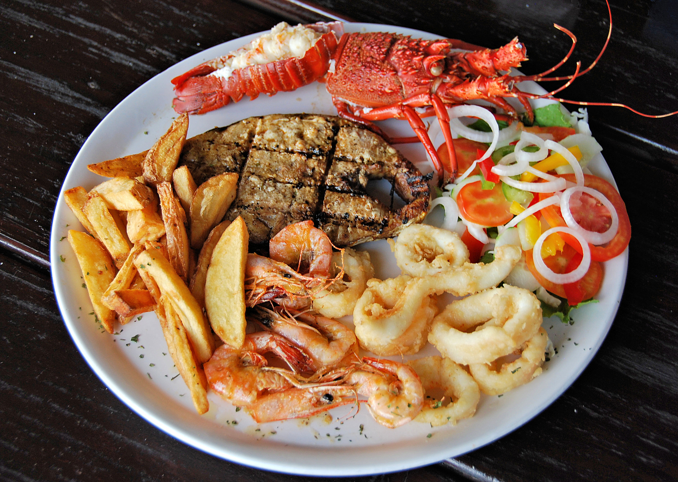 A plate of seafood at Sunset Beach Lodge, Mozambique